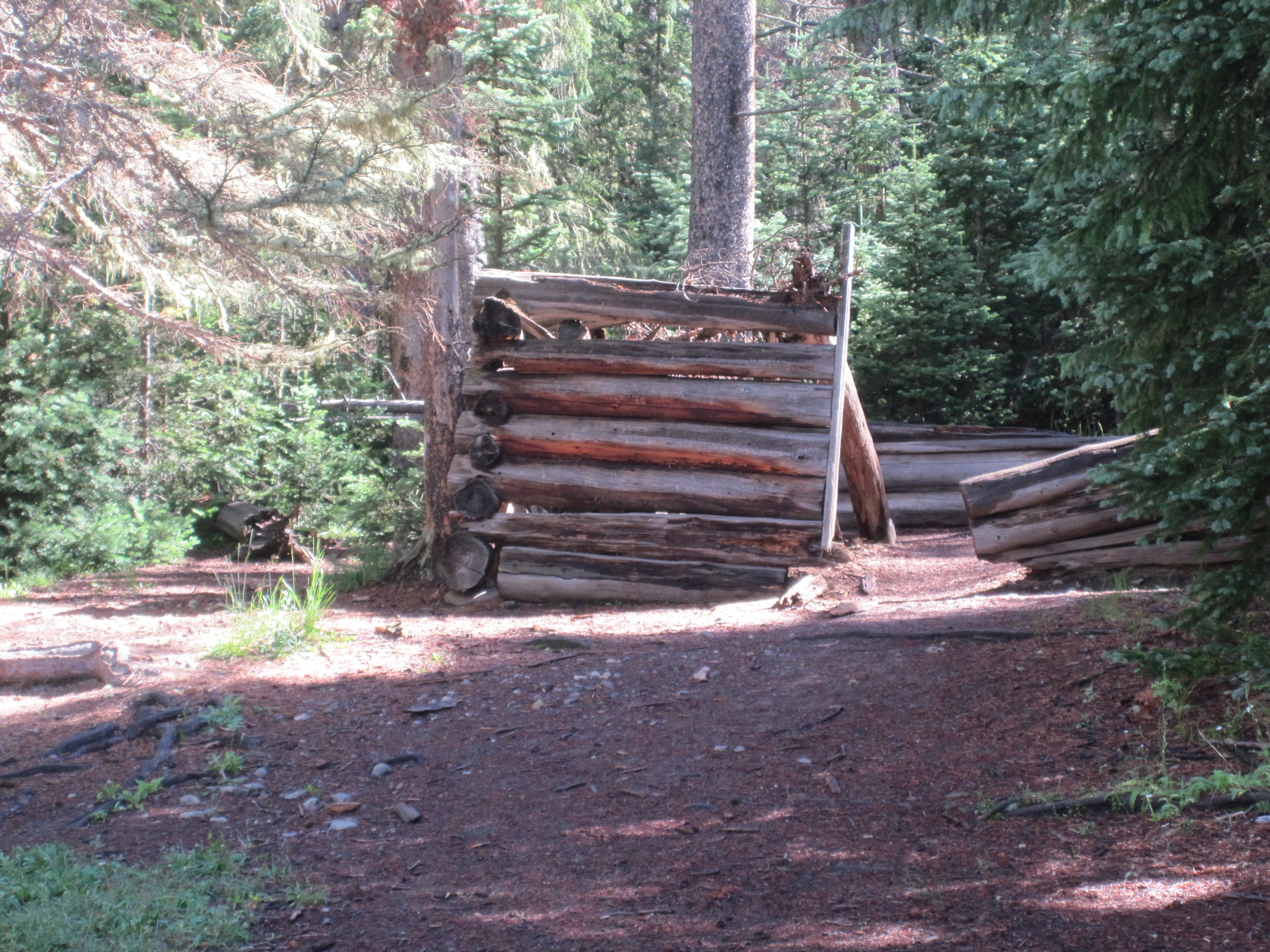 I took photo with Canon camera at RMNP, CO.